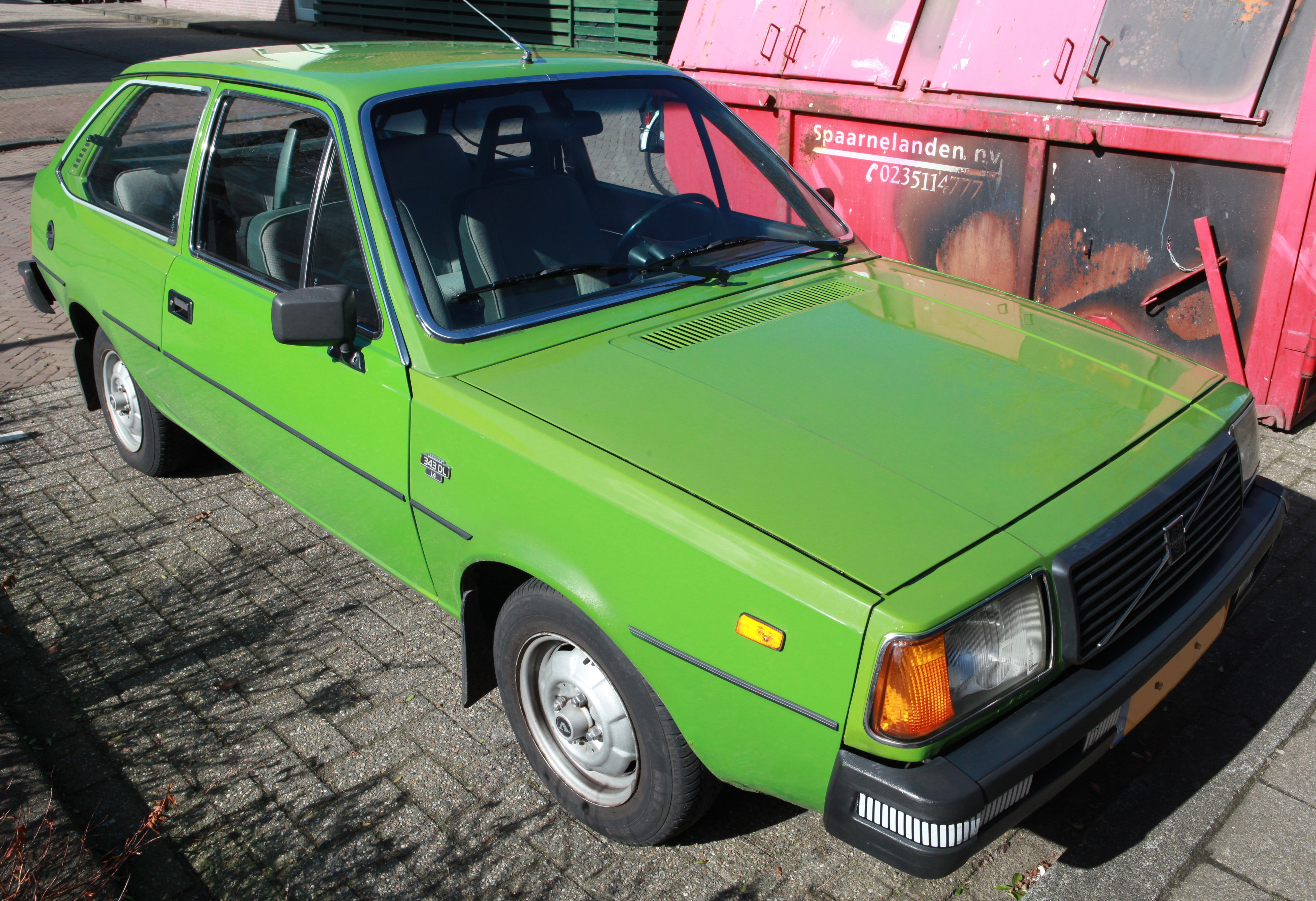 An early (1978) Volvo 343 DL 1.4 in the Netherlands. Two owners by 2014!